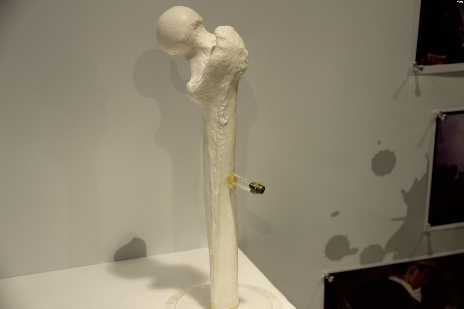 bullet taken out from the leg of Zhang Jian, who was a participant of the 1989 Tiananmen protests